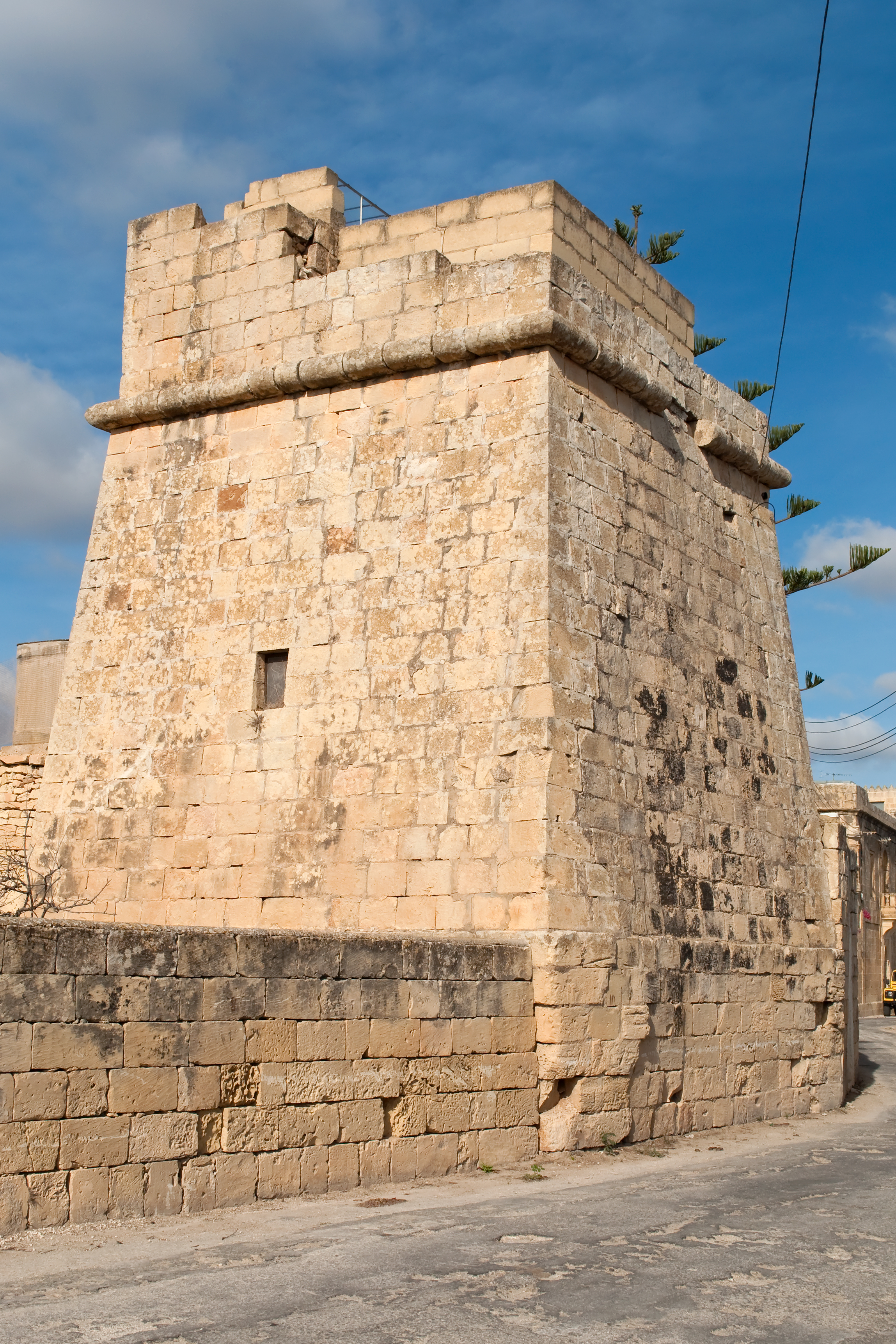 Vincenti Tower This media is about Maltese cultural property with inventory number 01442.